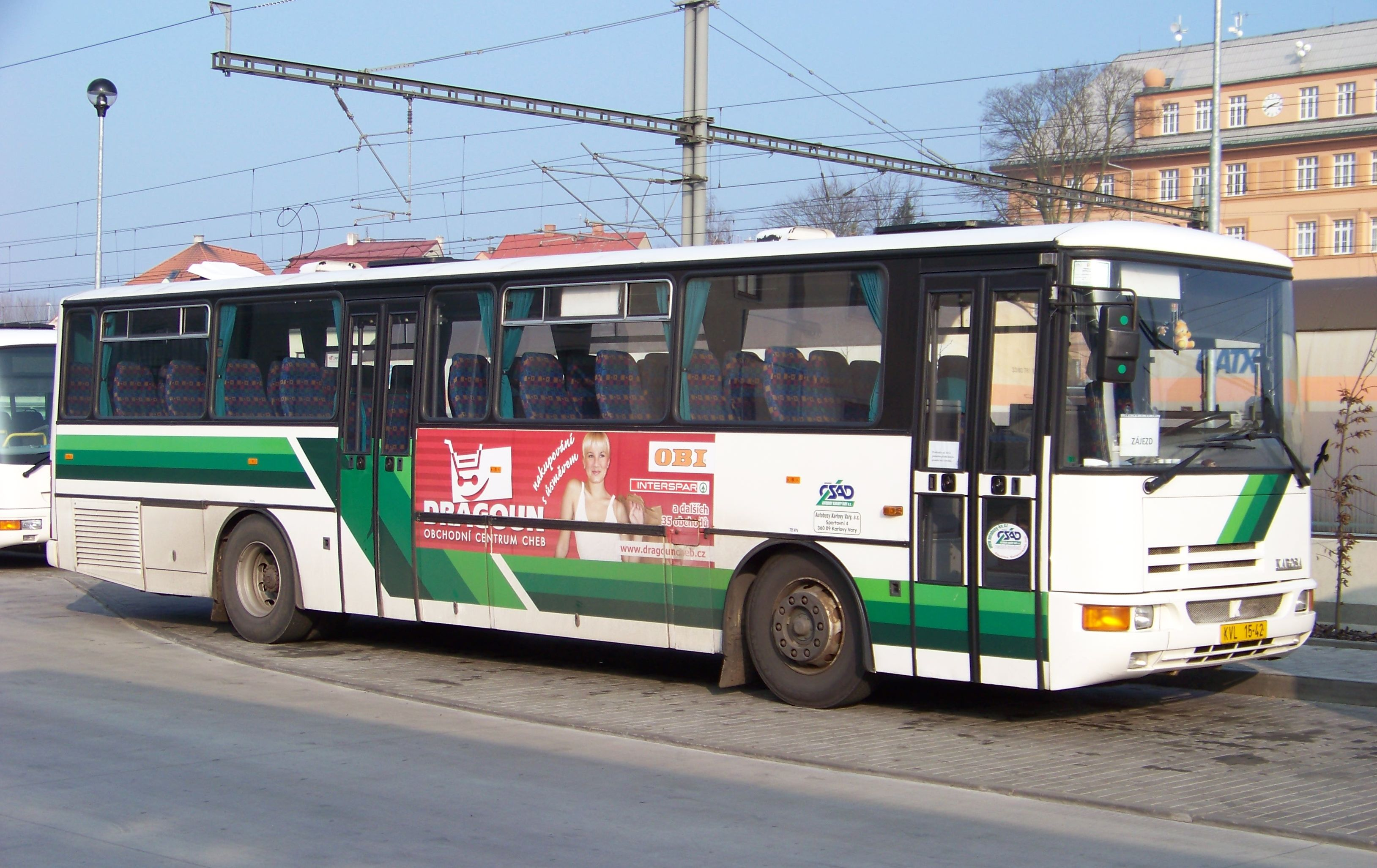 Sokolov, Sokolov District, Karlovy Vary Region, the Czech Republic. "Sokolov, Terminál" bus station, a bus.